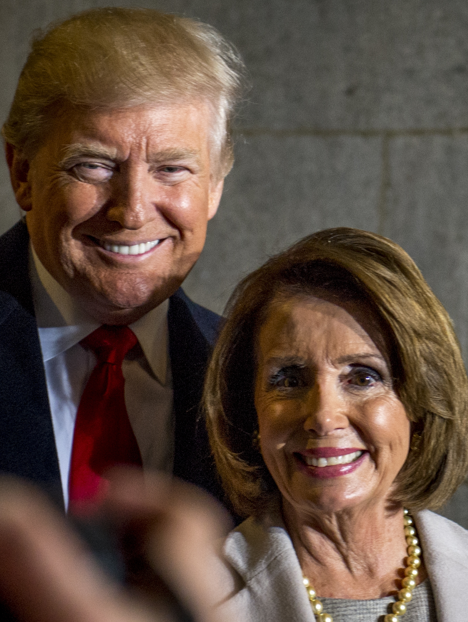 President-elect Donald J. Trump and U.S. Speaker of the House Nancy Pelosi smile for a photo during the 58th Presidential Inauguration in Washington, D.C., Jan. 20, 2017. More than 5,000 military members from across all branches of the armed forces of the United States, including reserve and National Guard components, provided ceremonial support and Defense Support of Civil Authorities during the inaugural period. (DoD photo by U.S. Air Force Staff Sgt. Marianique Santos)